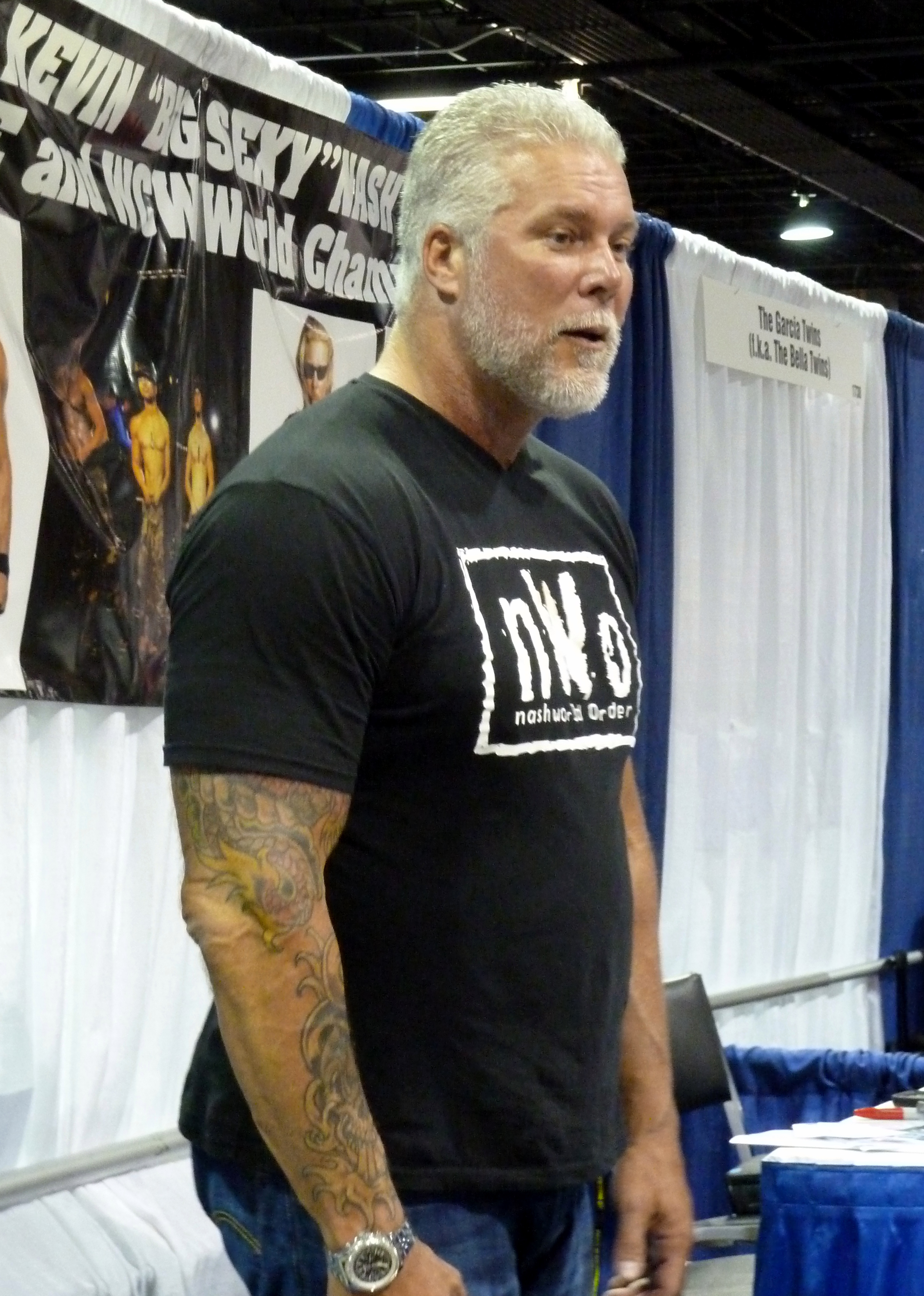 Kevin Nash 03